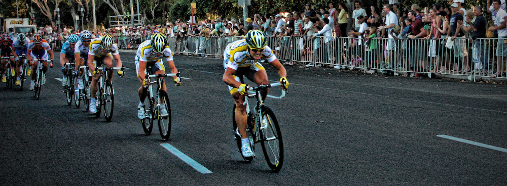 Tour Down Under 2009, a cycling stage race taking place over January 20–25 around Adelaide, Australia.